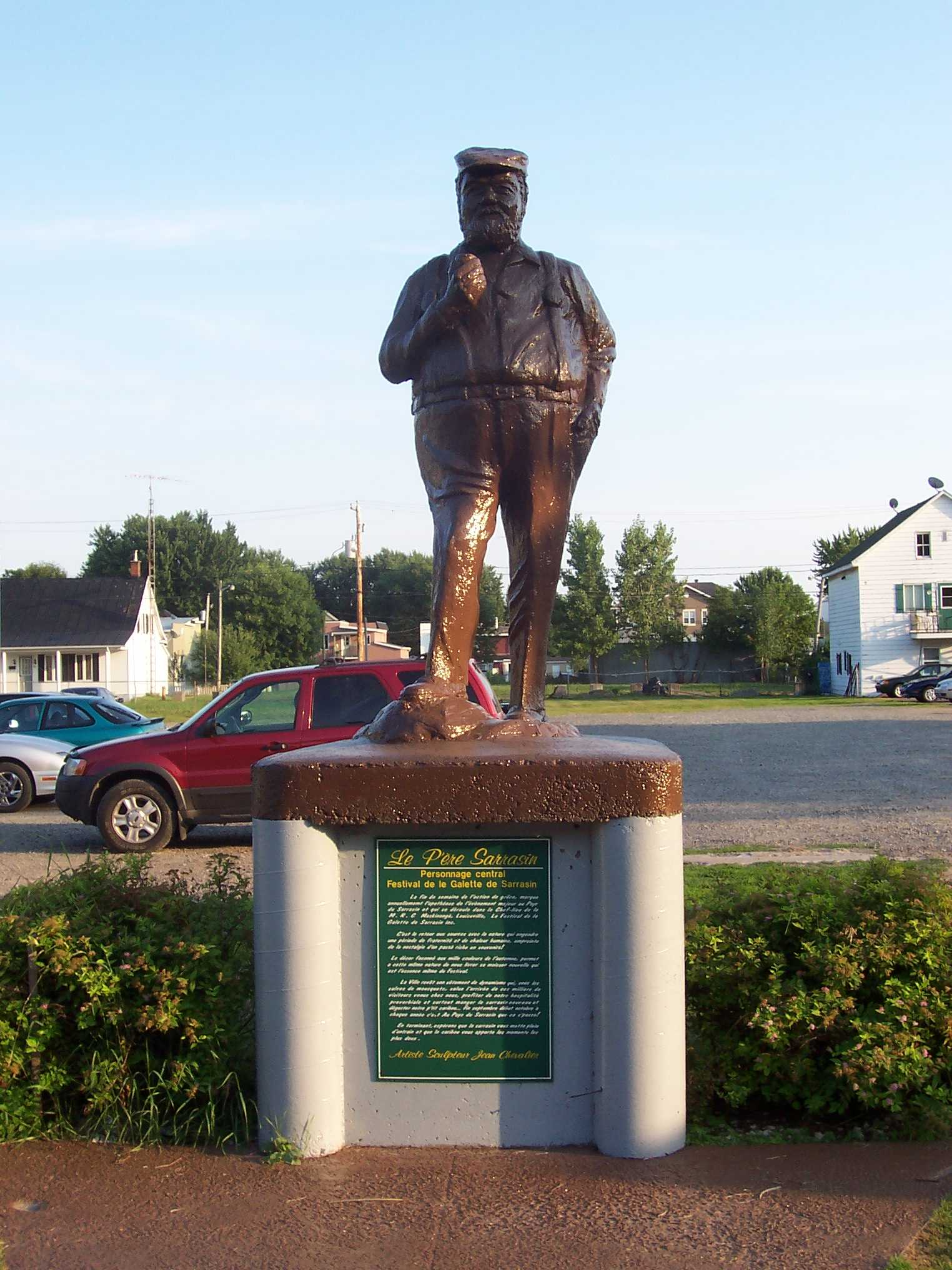 "Père Sarrasin" monument, ("Father Buckwheat"), character from the Buckwheat festival, Louiseville, Quebec, Canada, July 21st, 2007.